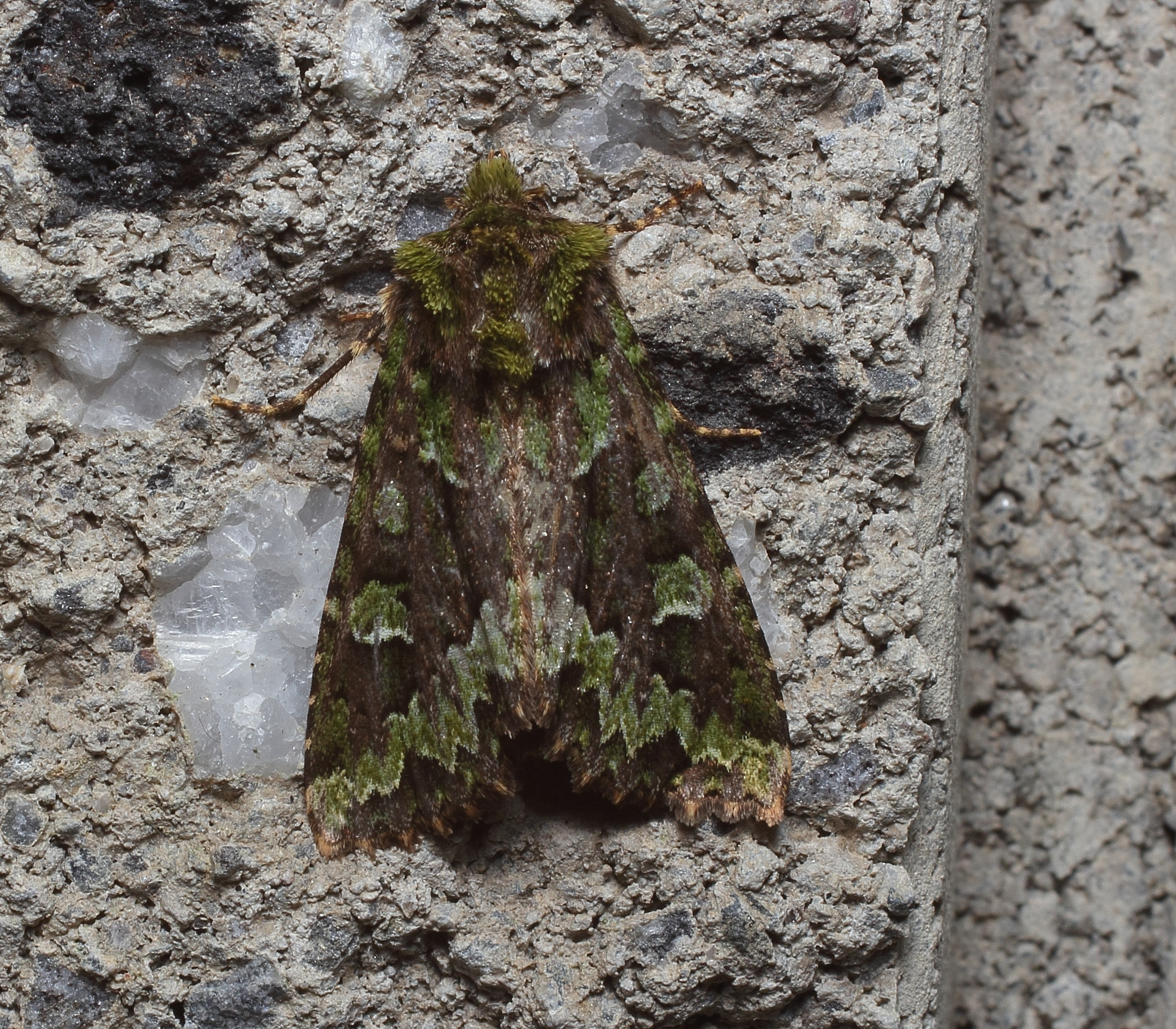 Antivaleria viridimacula in Kobe City, Japan.